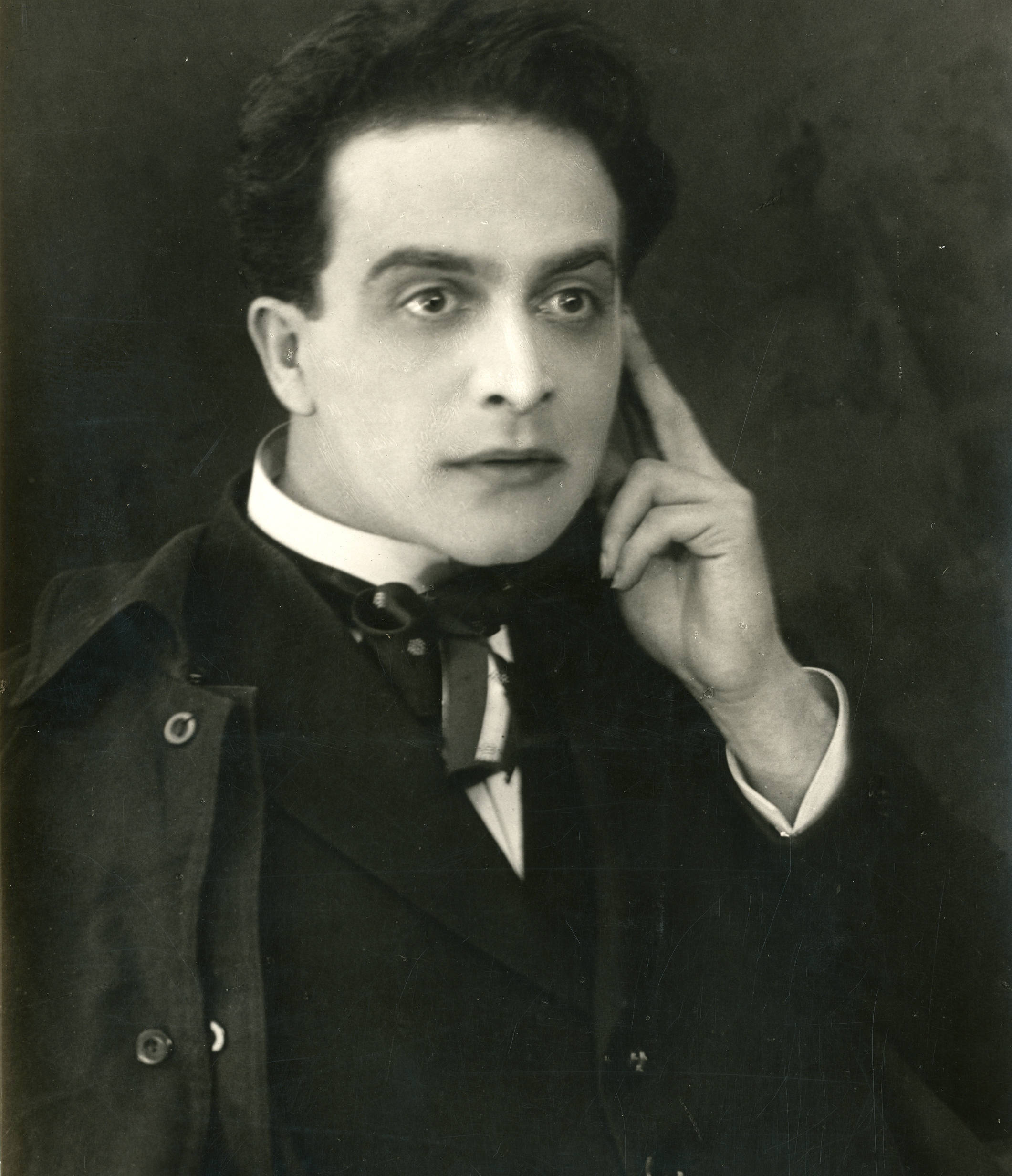 Fritz (Friedrich) Feher, silent film actor Subjects: actors